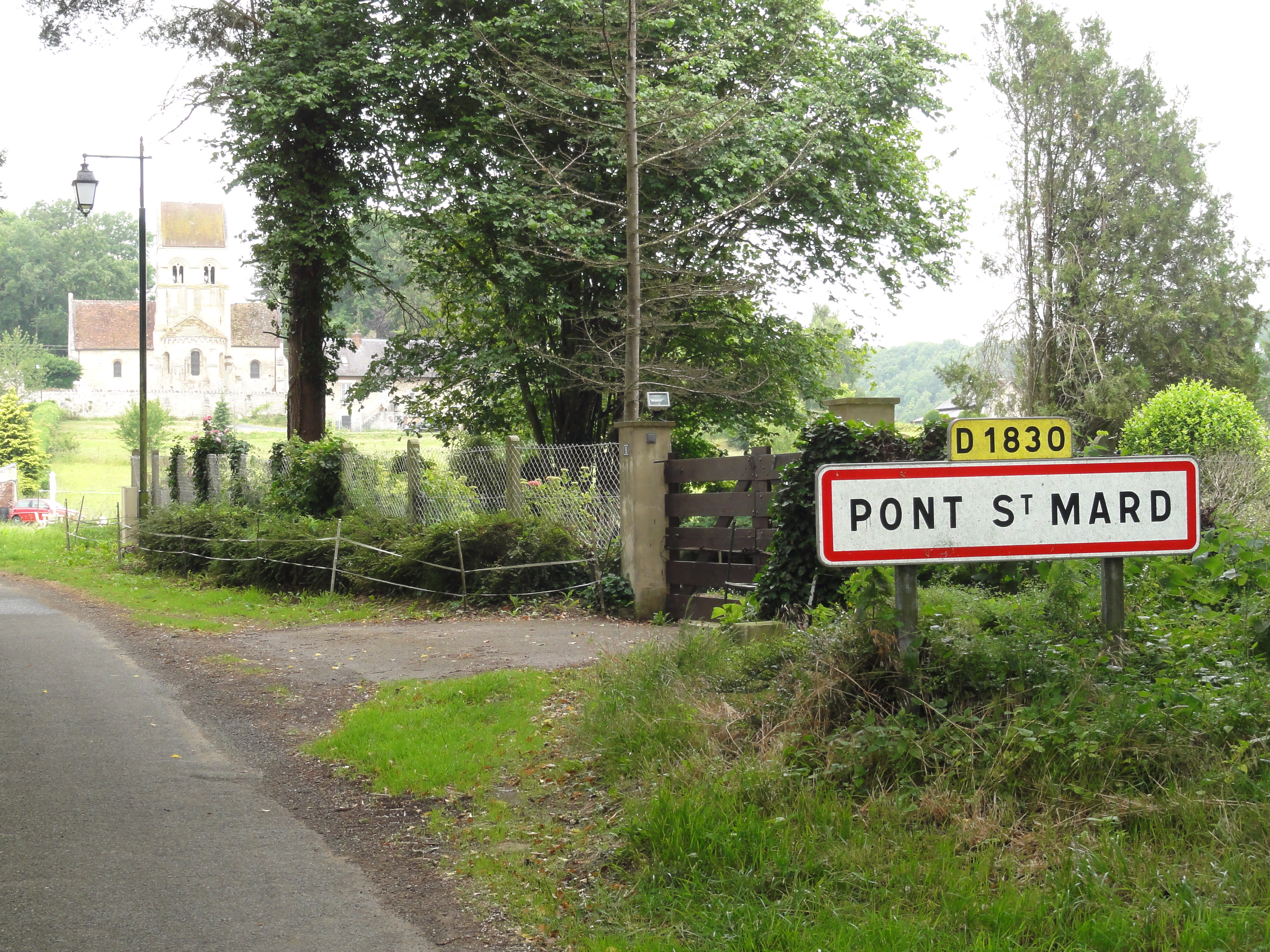 Pont-Saint-Mard (Aisne) city limit sign